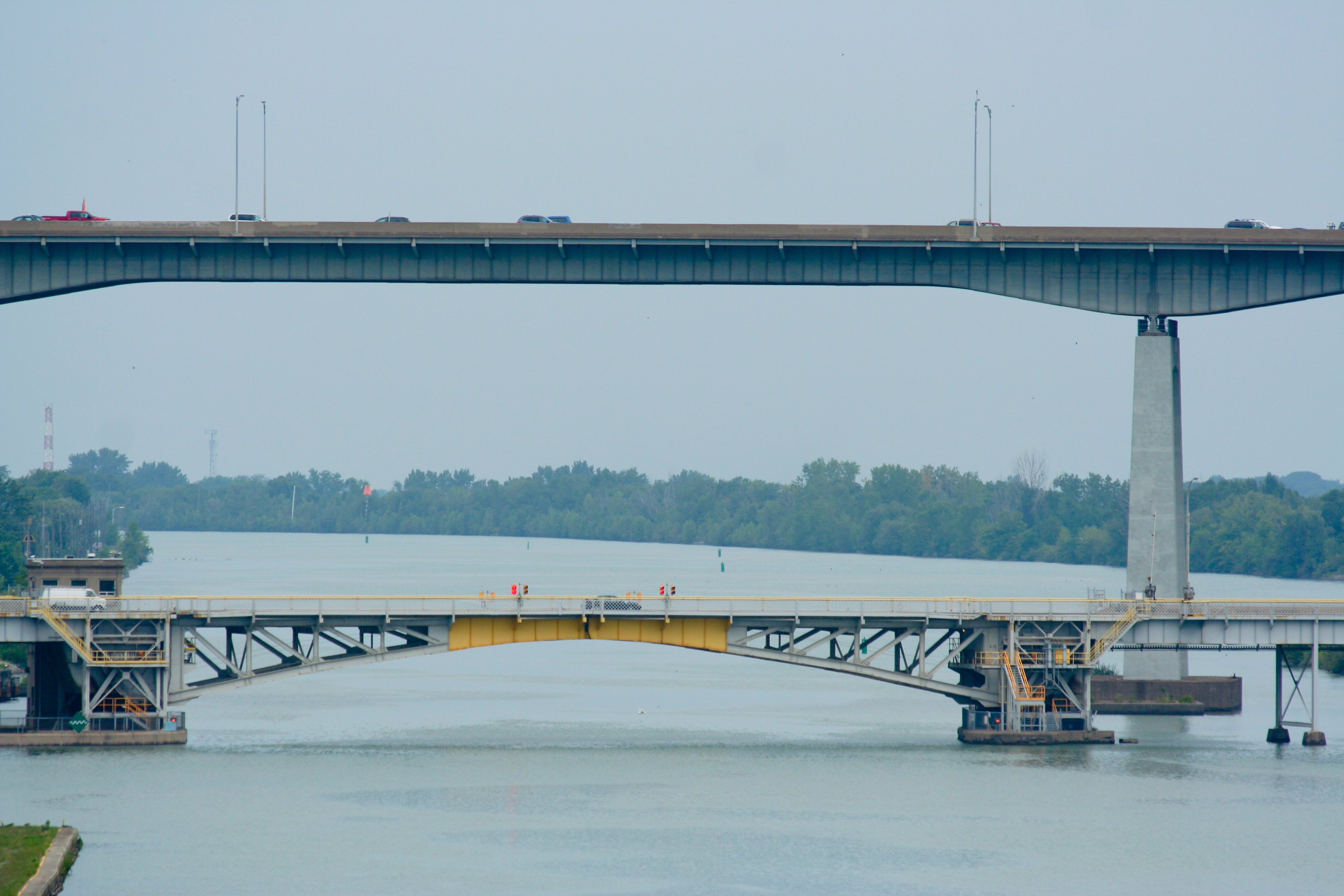 Two bridges crossing the Welland Canal at St. Catharines, Ontario: The Homer Bridge (bascule bridge carrying Queenston Street, also known as Bridge No. 4 on the canal) and the Garden City Skyway highway bridge.